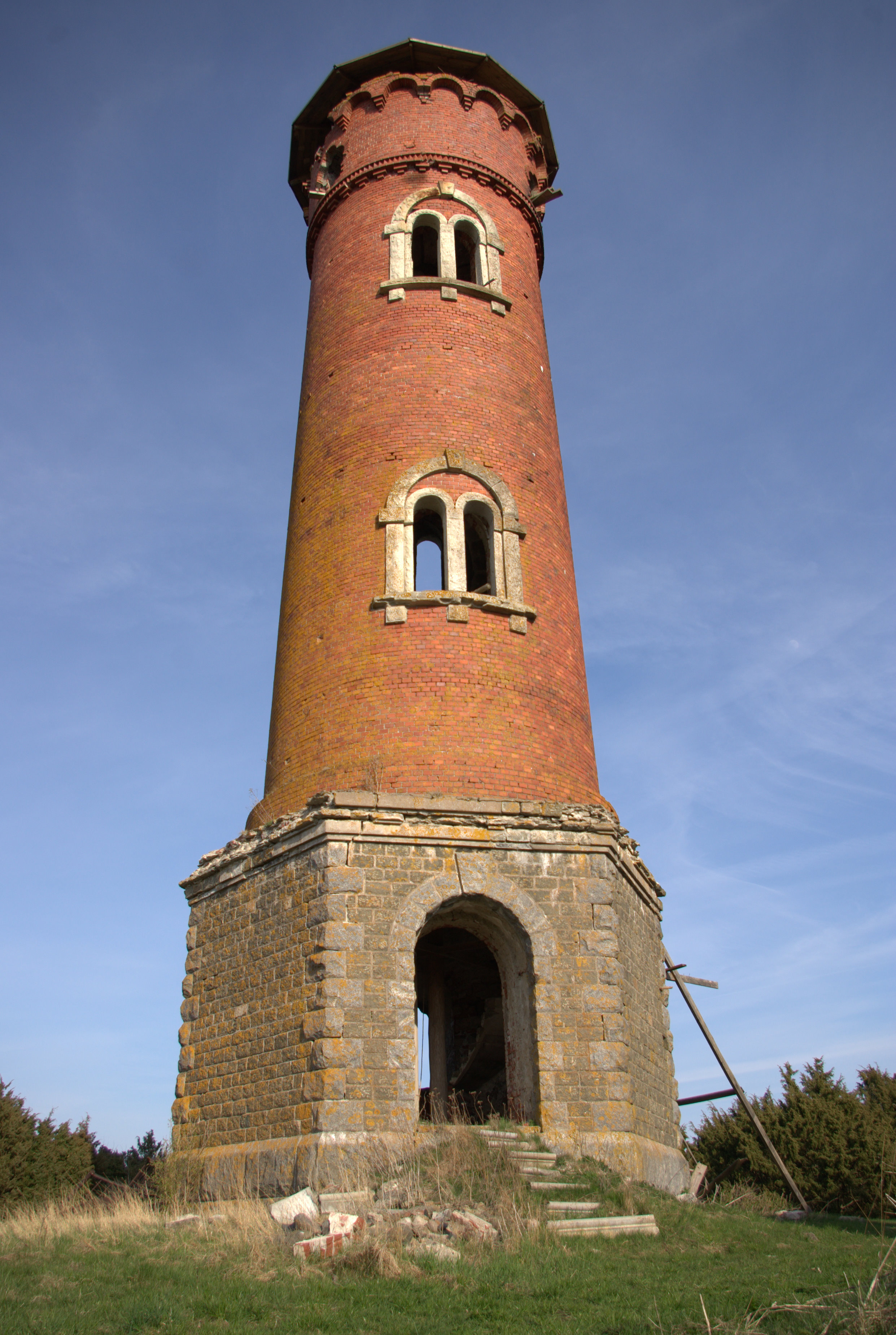 Laidunina lighthouse in Saaremaa Estonia.